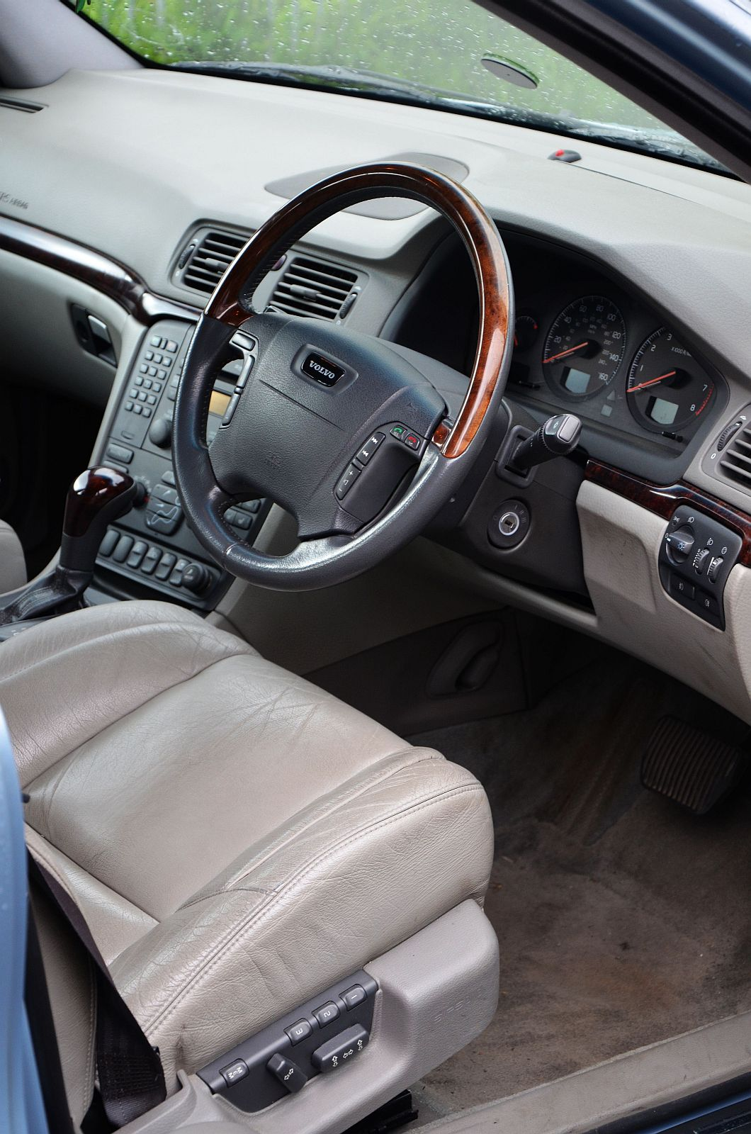 Volvo S80 2.4T 2002 Blue, interior driver side.